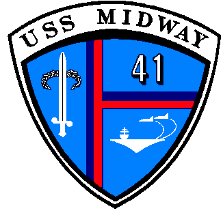 Insignia of the U.S. Navy aircraft carrier USS Midway (CV-41), adopted in 1961.